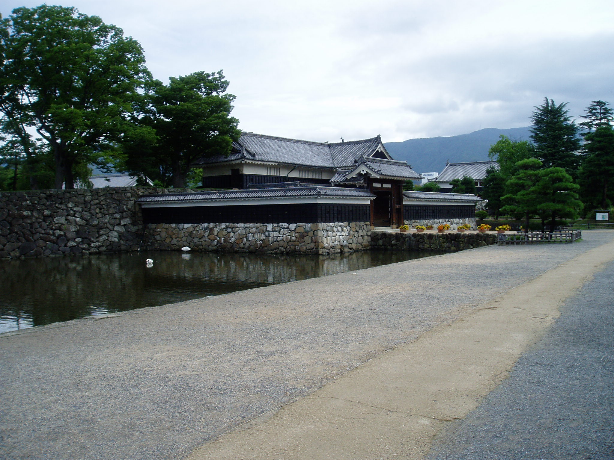 Kuro Mon (黒門; literally means, Black Gate) of Matsumoto Castle in Matsumoto, Nagano, Japan.